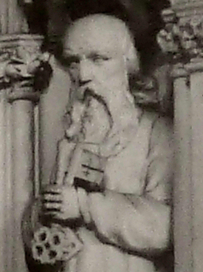 Former reredos of Bradford Parish Church (now Bradford Cathedral), on Stott Hill, Bradford, West Yorkshire, England. This was carved by Robert Mawer before he died in 1854, and it was installed in 1855. It was removed before 1950. Its present whereabouts is unknown. Showing head of St Peter, in a panel on the north or left side of the reredos. This image shows the building before architect Sir Edward Maufe extended it to the east and to the north of the west tower in 1950. (Information re Maufe's extension from Historic England listing 1133250)